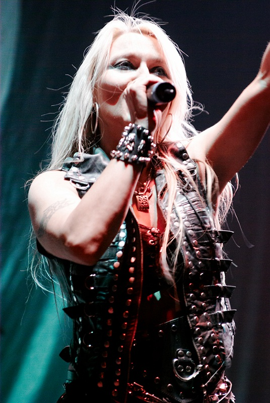 Doro Pesch @ Classic Rock Festival Hamburg